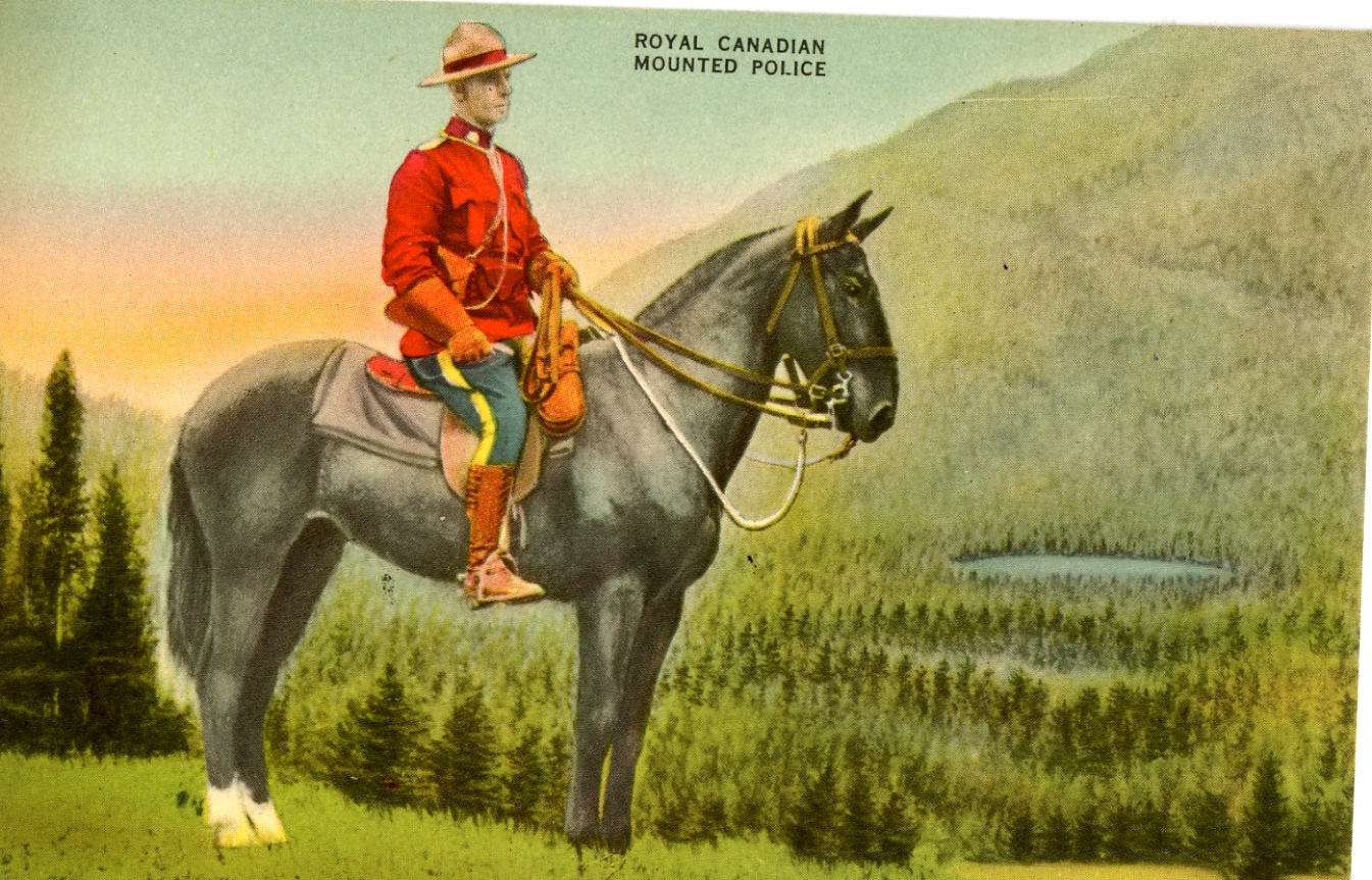 Postcard of Royal Canadian Mounted Police officer.